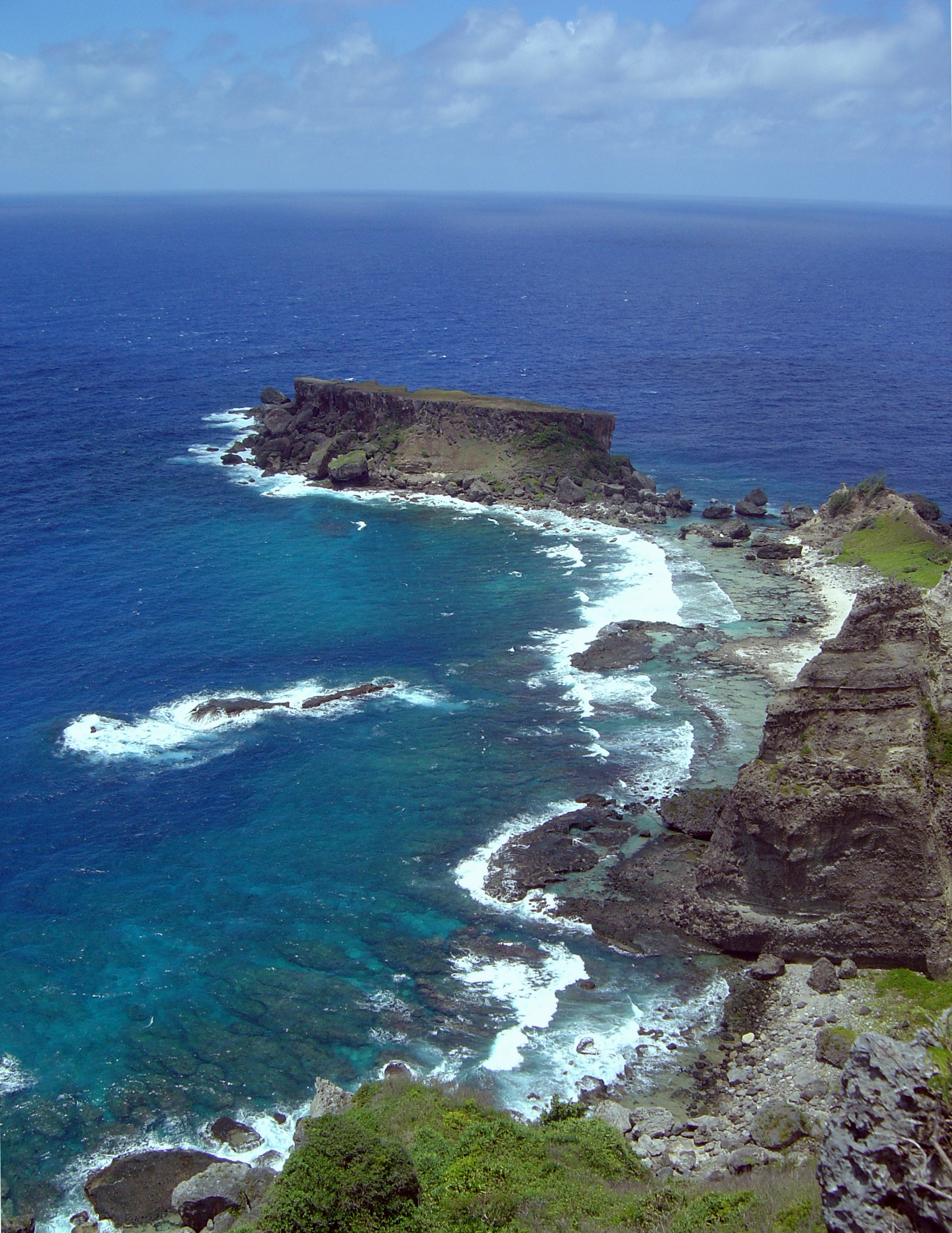 Forbidden Island, offshore from Saipan. Commonwealth of Northern Mariana Islands, Saipan.